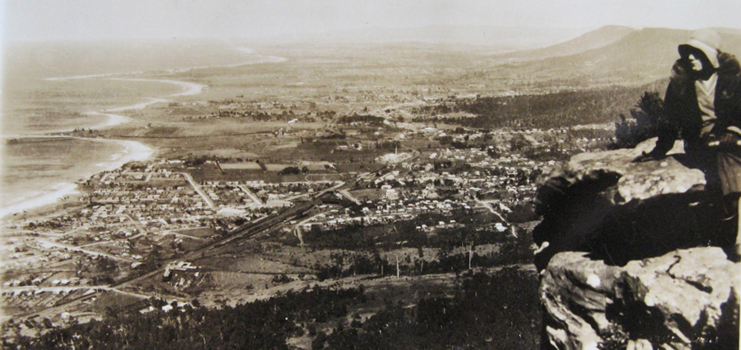 Thirroul, New South Wales circa 1920